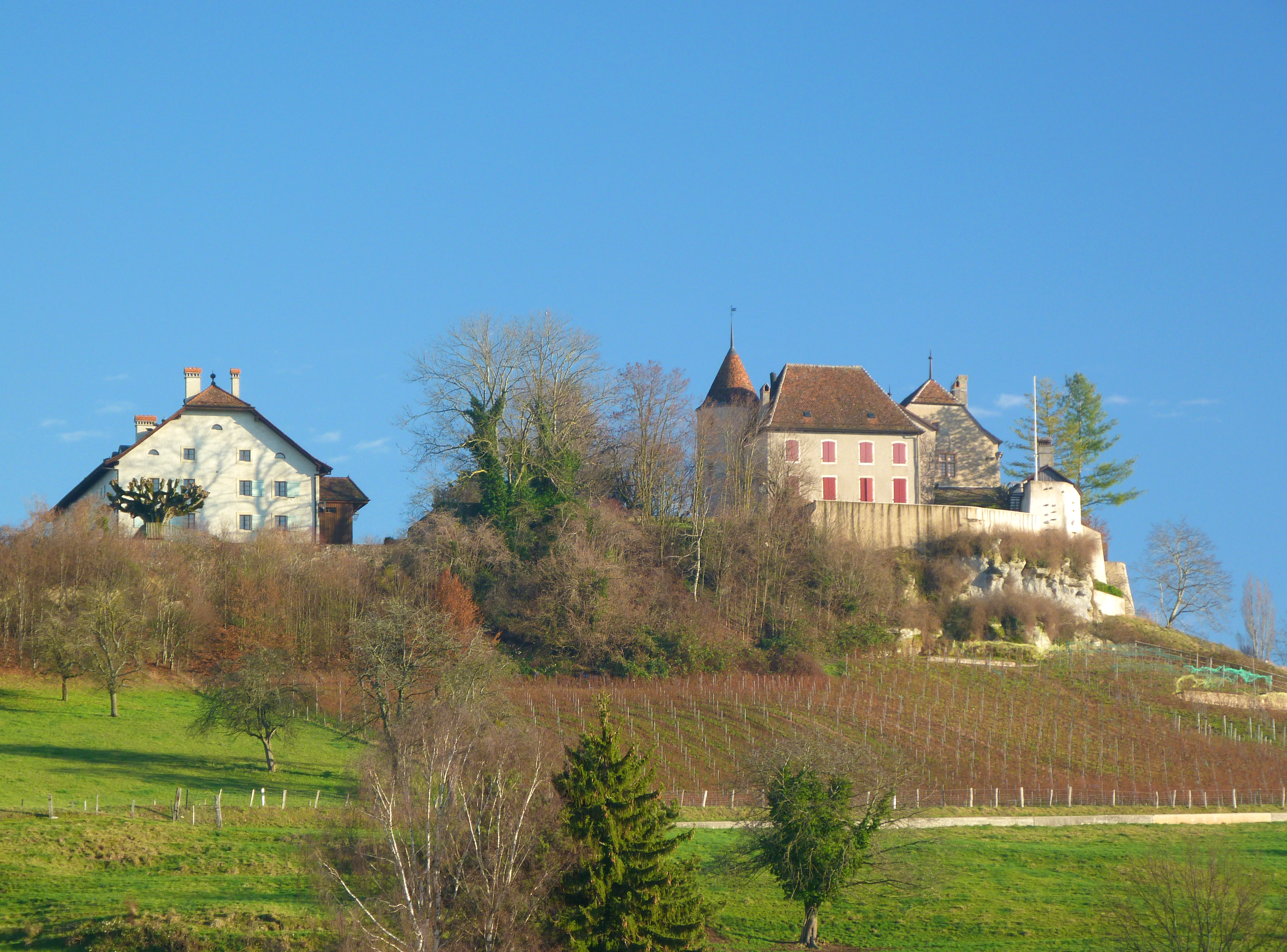 Castle of Bavois